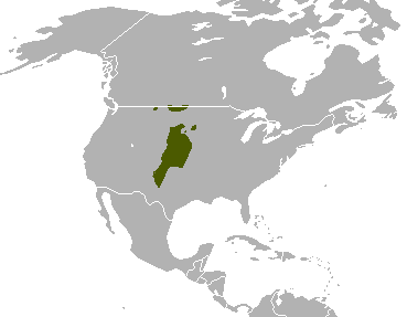 Swift Fox range